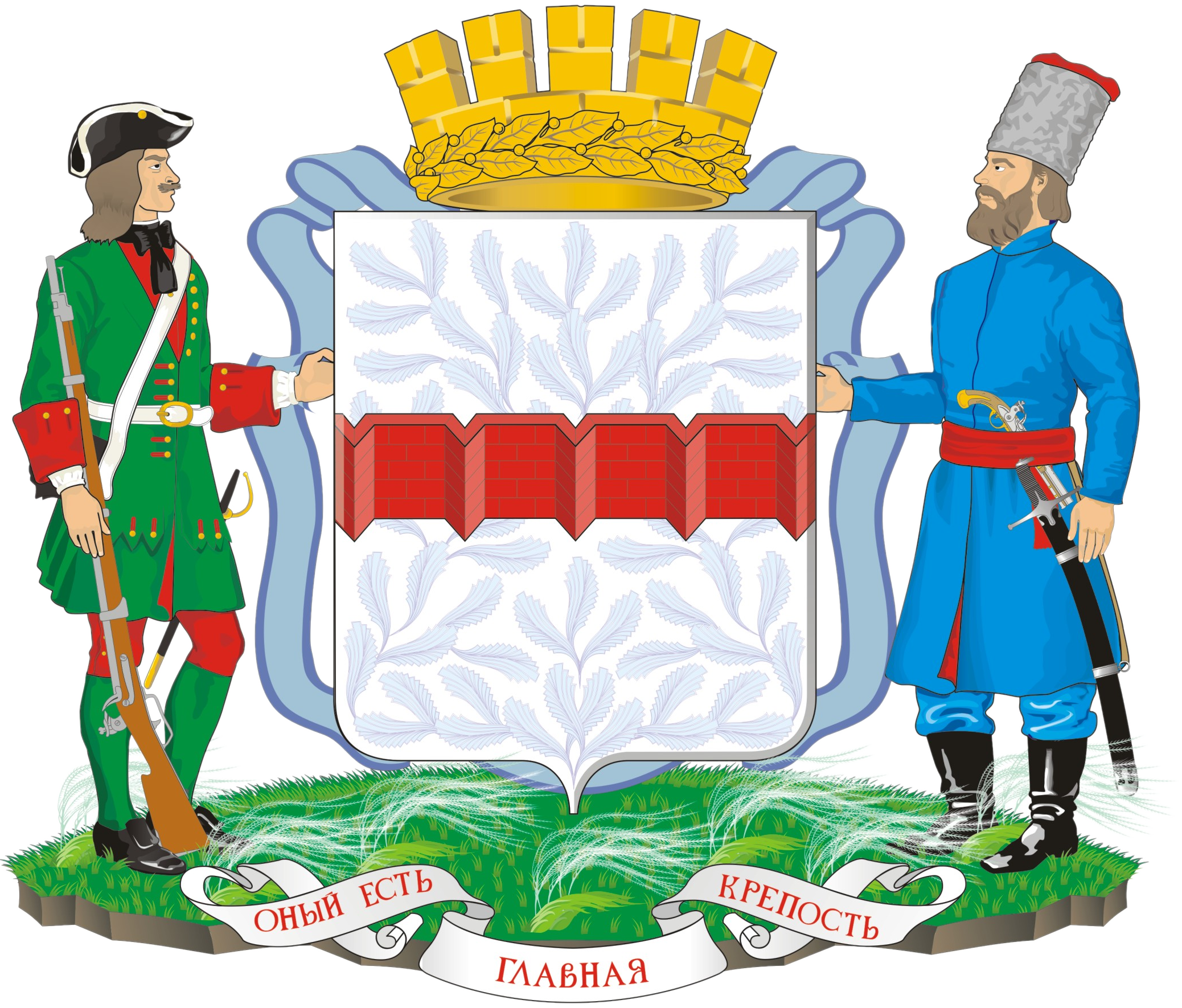 Coat of arms of Omsk.